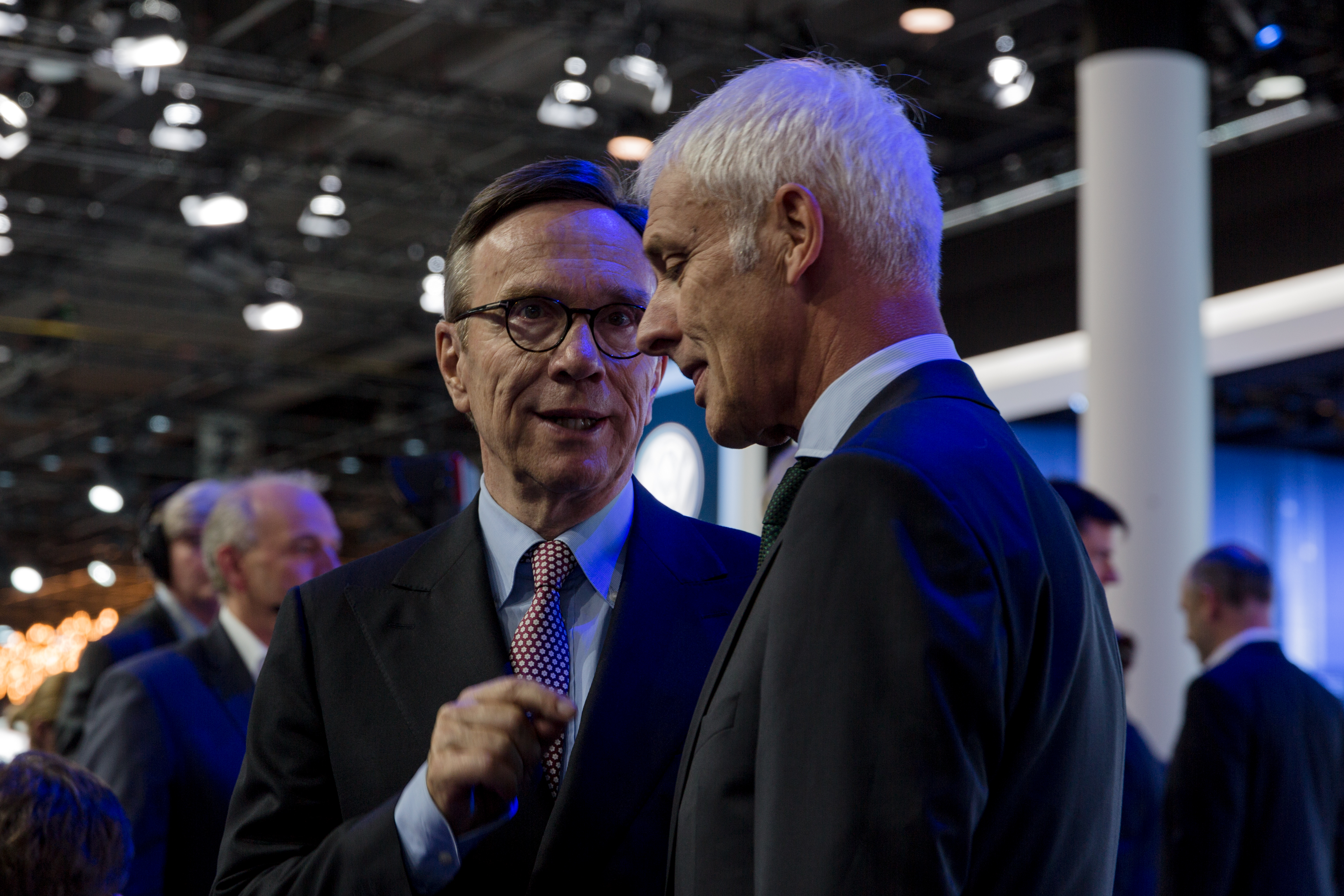 Matthias Wissmann and Matthias Müller at the VW press conference, IAA 2017